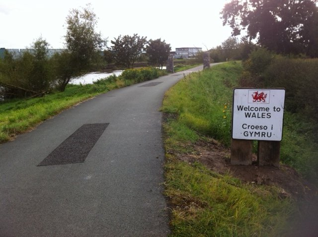 UK National Cycle Route 5 at the Wales England border alongside the River Dee near Chester.